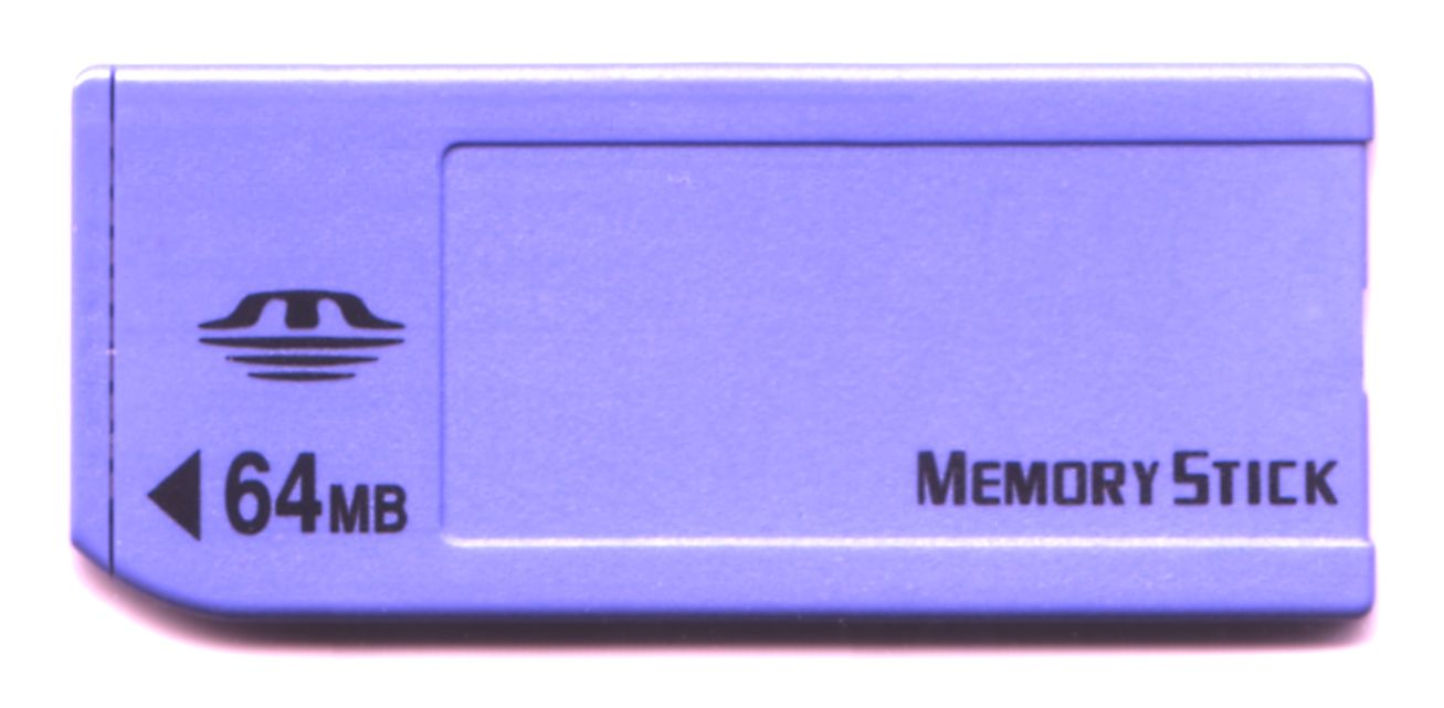 Memory Stick (64MB)